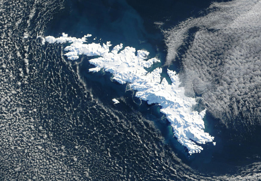 This is a true-color satellite image of South Georgia Island.